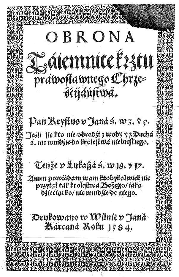 Andrzej Chrząstowski, "Obrona tajemnic krztu prawosławnego chrześcijaństwa"